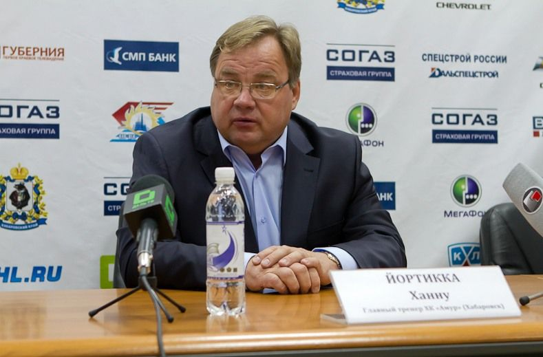 Amur Khabarovsk head coach Hannu Jortikka after the KHL-game against Salavat Yulaev Ufa on September 24, 2011 (Amur won 3-1).